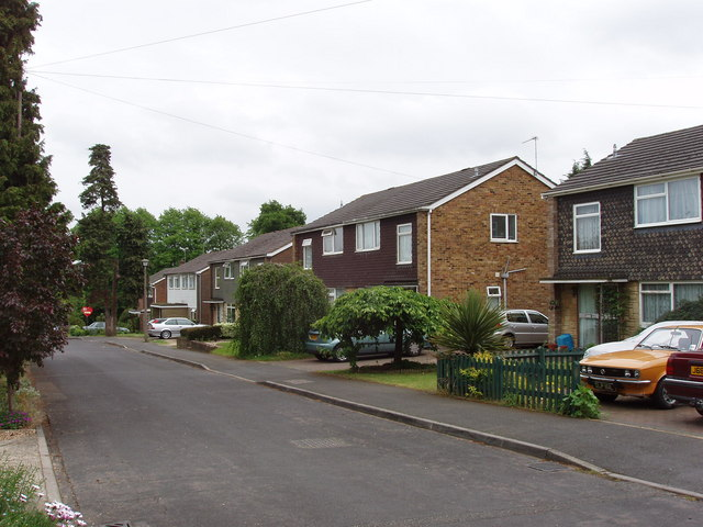 Ongar Close, Rowhill, near Addlestone. A side road near the point where the B3121 crosses the M25, just south of junction 11.